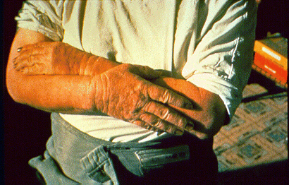 The hands, wrists and forearms are the most frequent sites of involvement in cases of industrial contact dermatitis. The hands and wrists of this worker with a chronic dermatitis show the effect of long term exposure to a solvent, in this case kerosene.